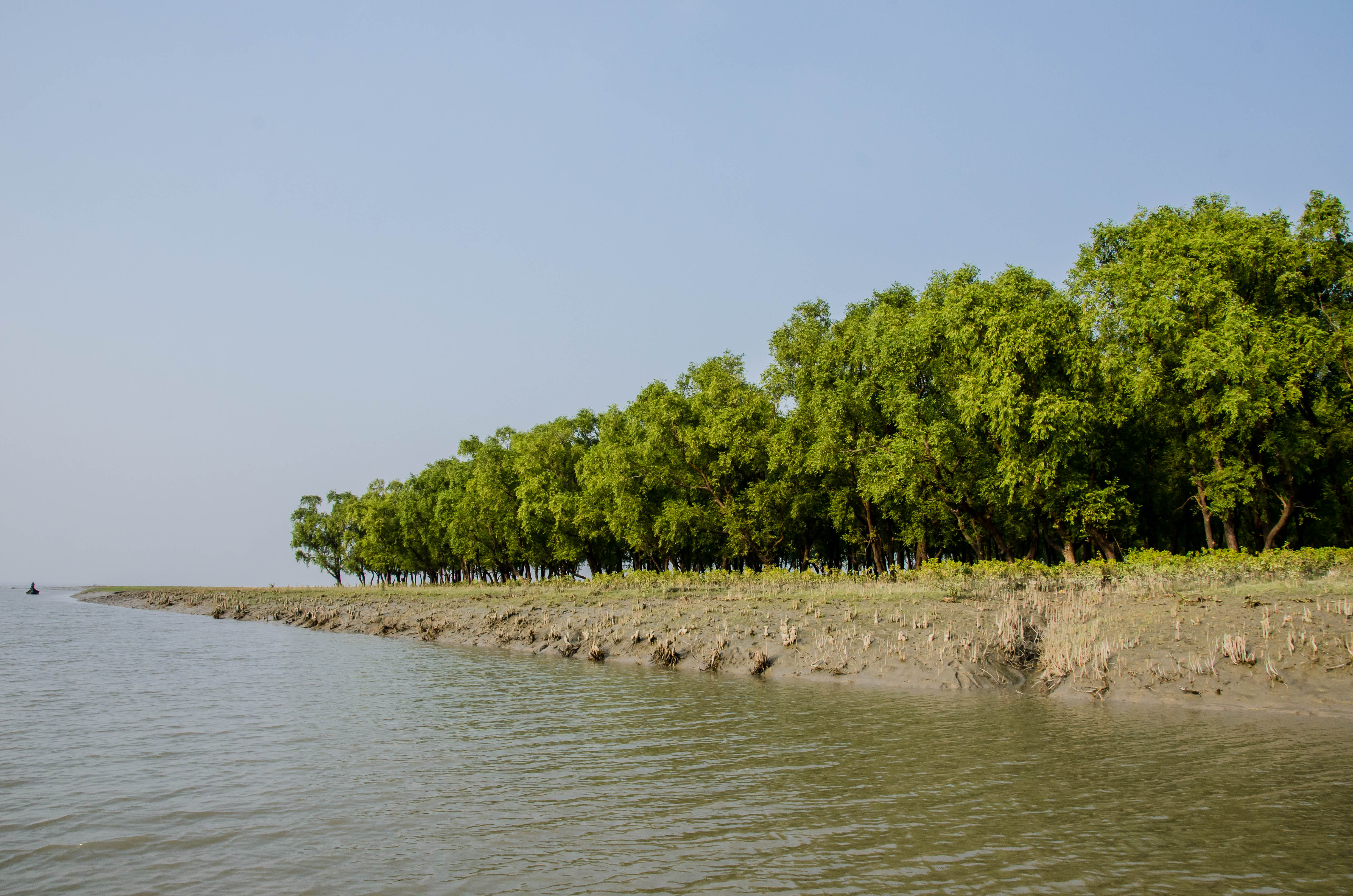 Nijhum Dwip, a small island under Hatiya upazila, Bangladesh.